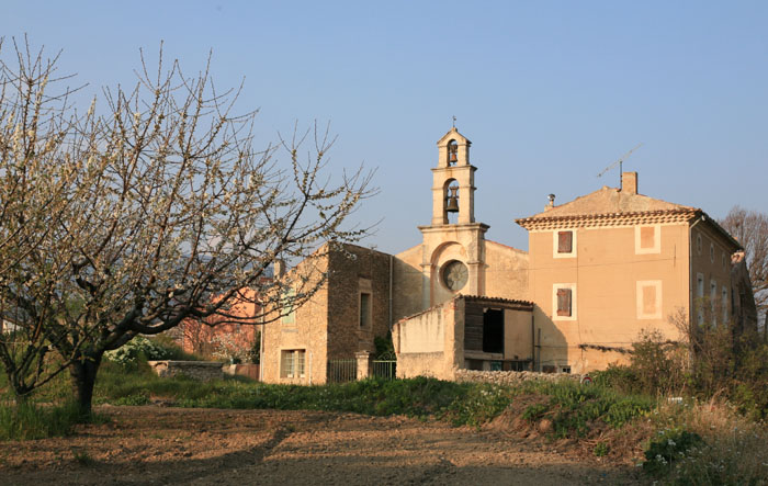 Town of Saint Martin de la Brasque in Vaucluse, France